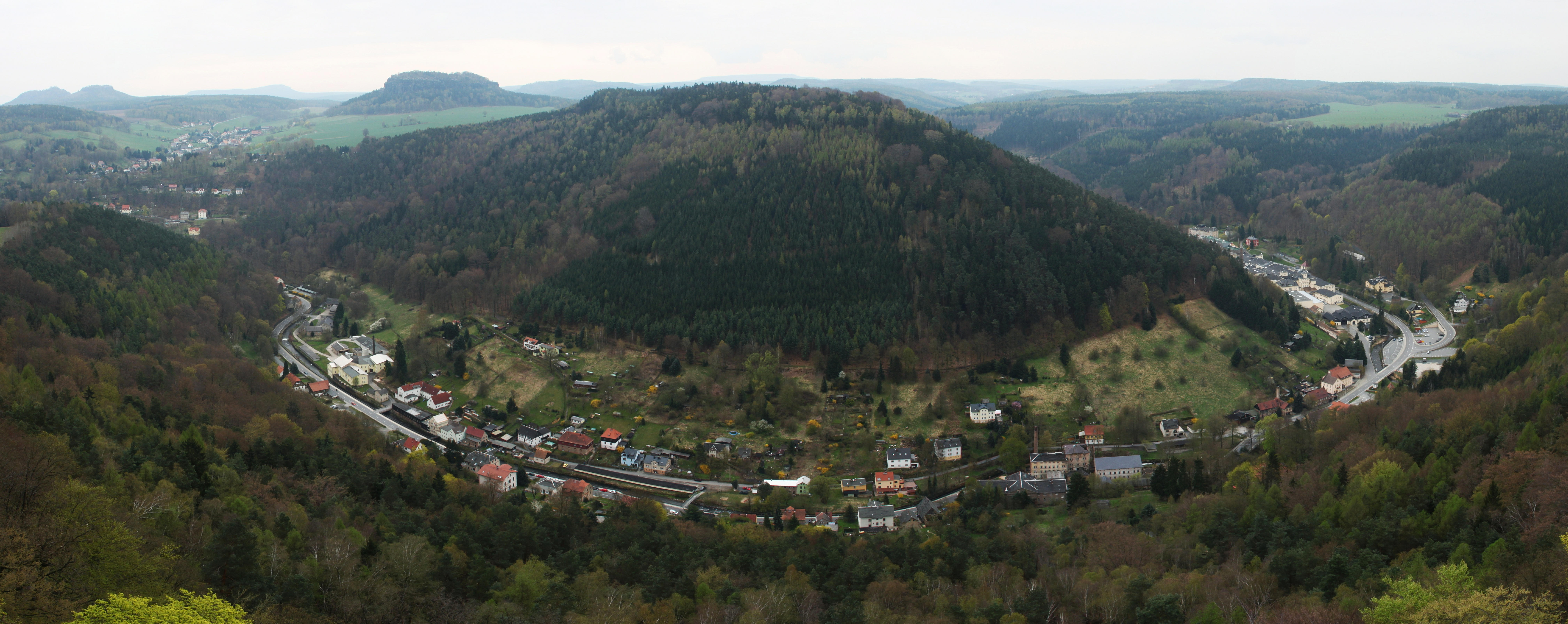 view from Königstein Fortress on the valley of the Biela River and the table mountain Quirl (350 m).